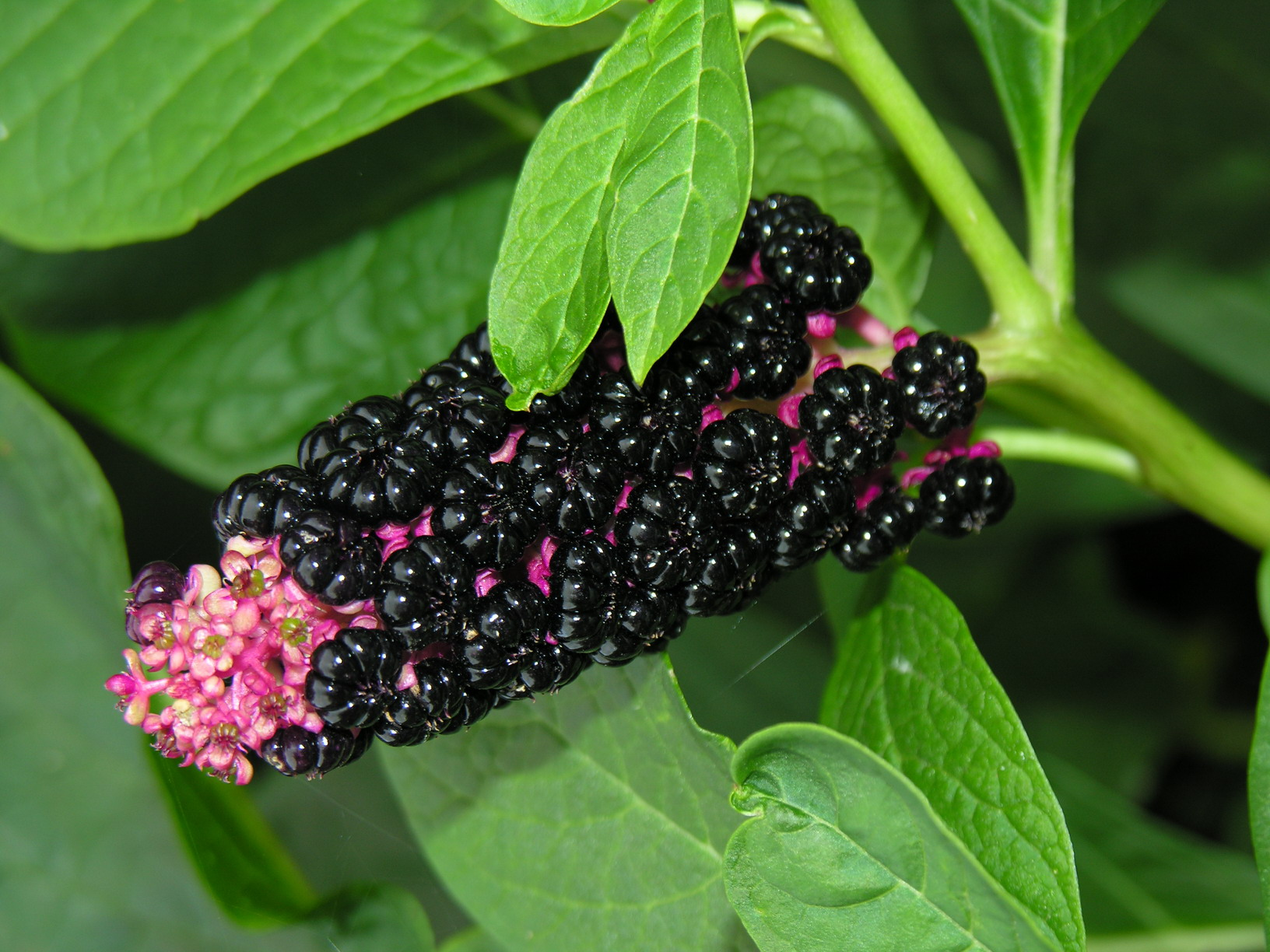 Phytolacca esculenta, Family Phytolaccaceae, Lithuania